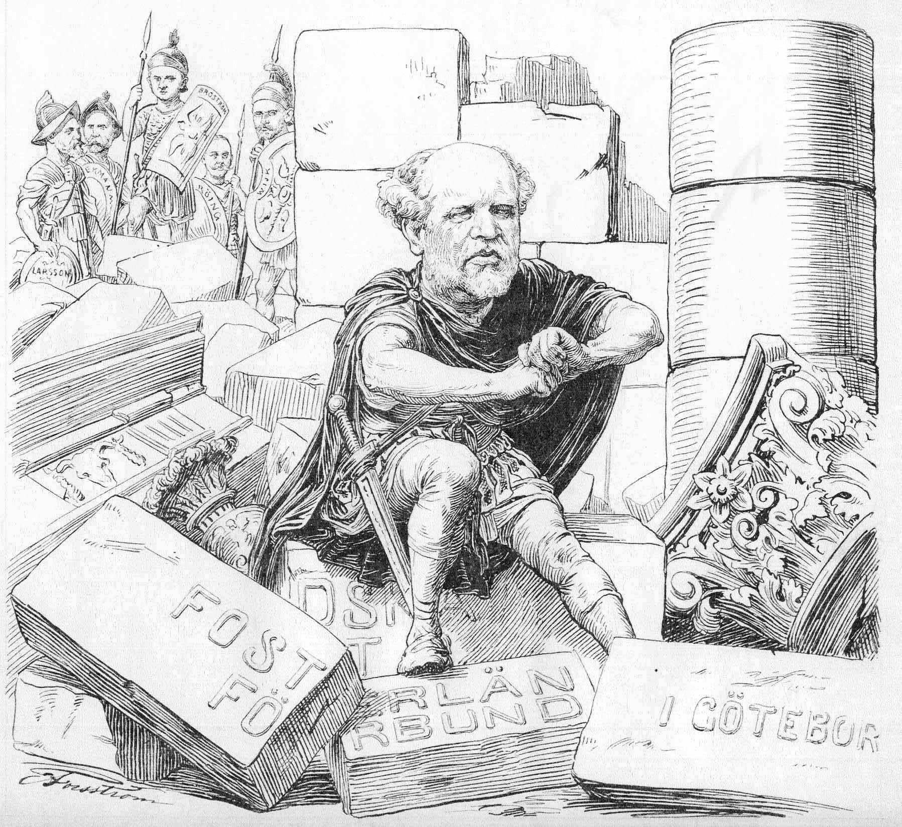 Drawing from magazine Puck 1905, artist: Edvard Forsström